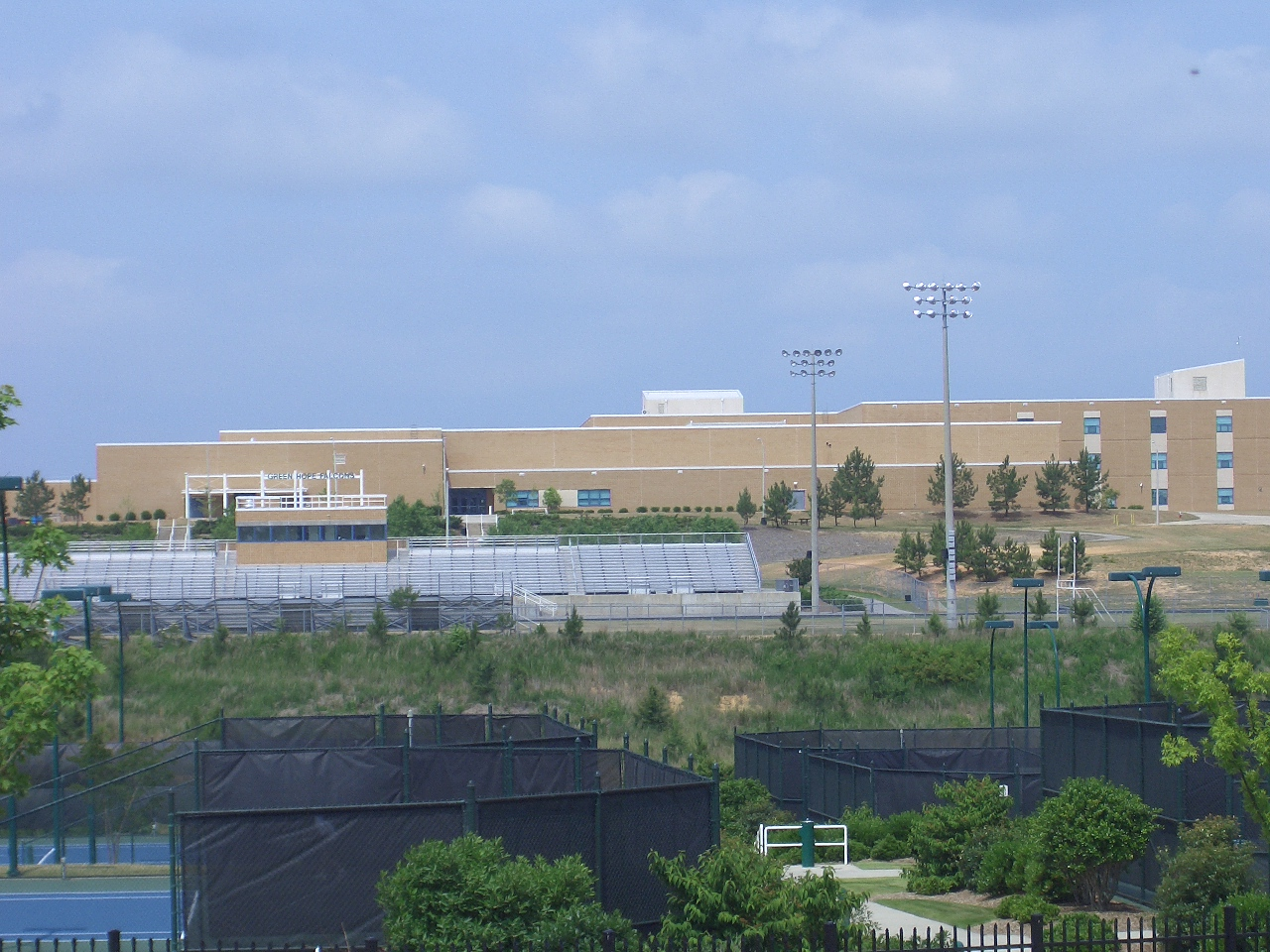 This photograph was taken from Green Hope Elementary School, facing the high school. Visible landmarks include the football field and the Cary Tennis Center.